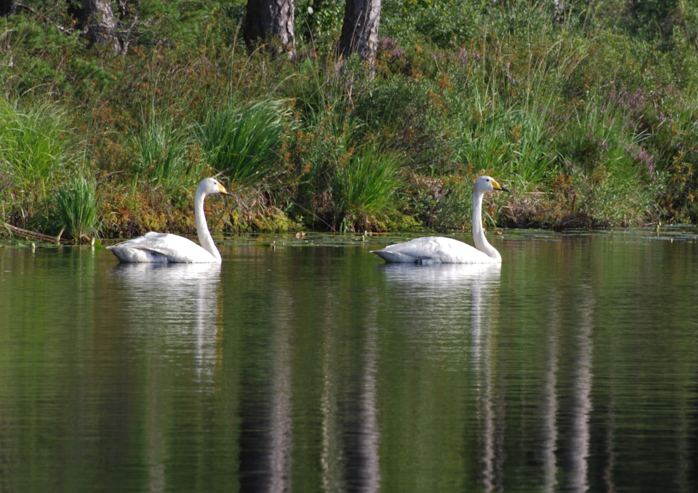 Whooper swans in lake Svartsjön